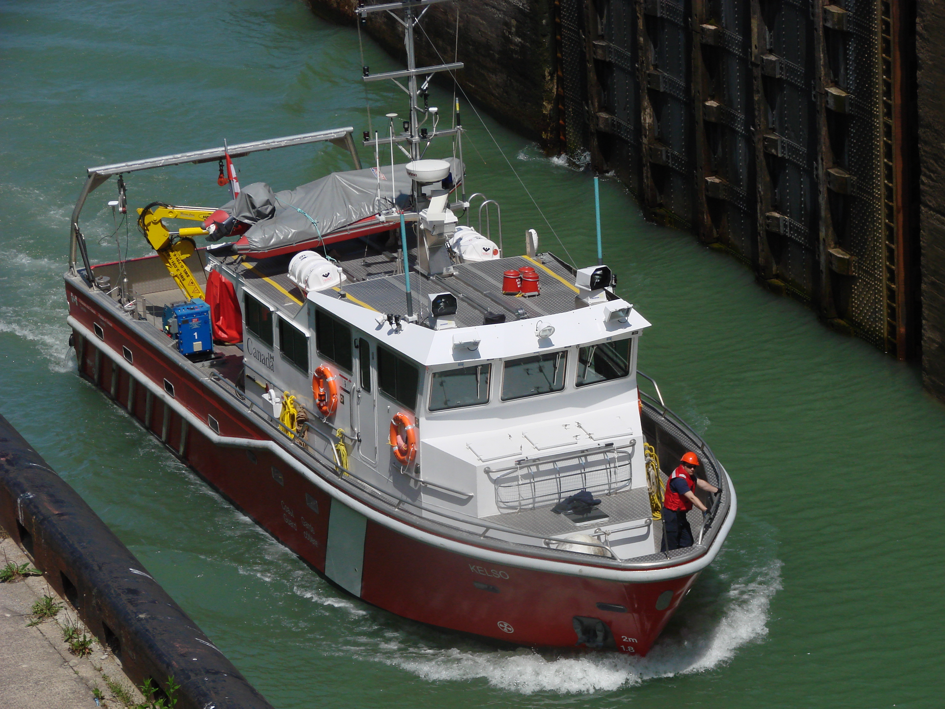 Canadian Coast Guard Ship Kelso entering the Welland Canal, St. Catharines, Ontario, Canada.